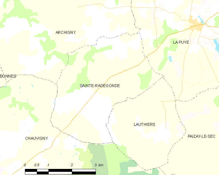 Map of French municipality Sainte-Radégonde